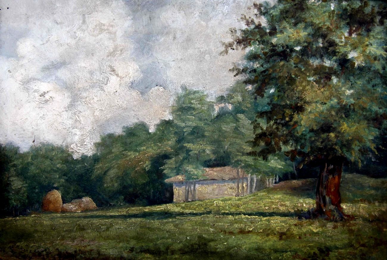 Ivan Entchev – Vidyu, Landscape - 1917